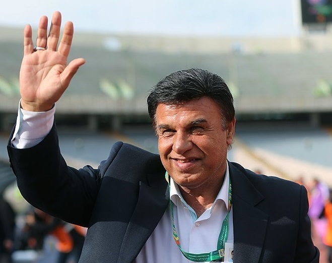 Parviz Mazloumi